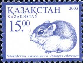 Stamp of Kazakhstan